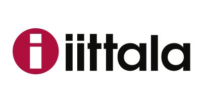 Iittala Logo